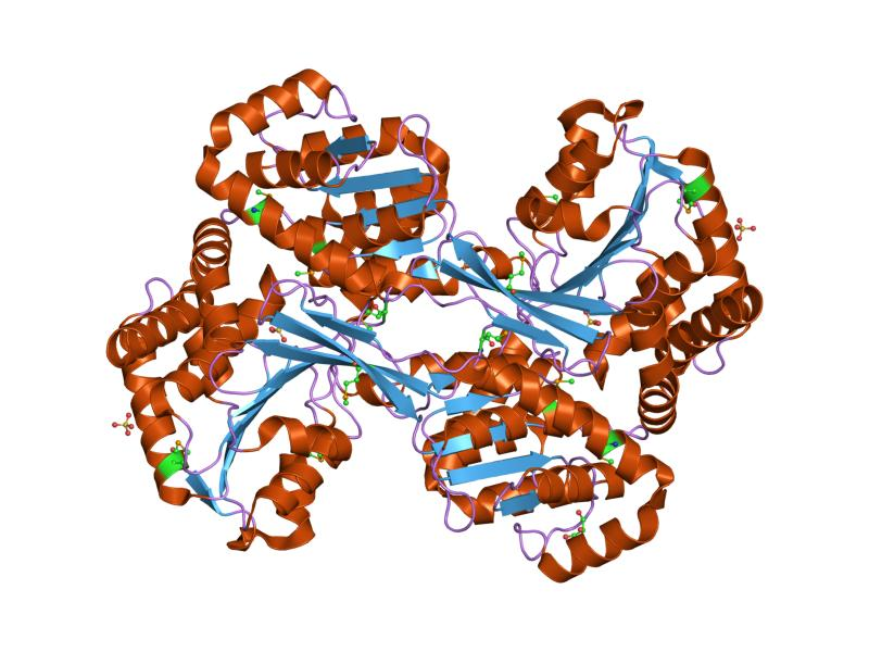 Cartoon representation of the molecular structure of protein registered with 1k75 code.